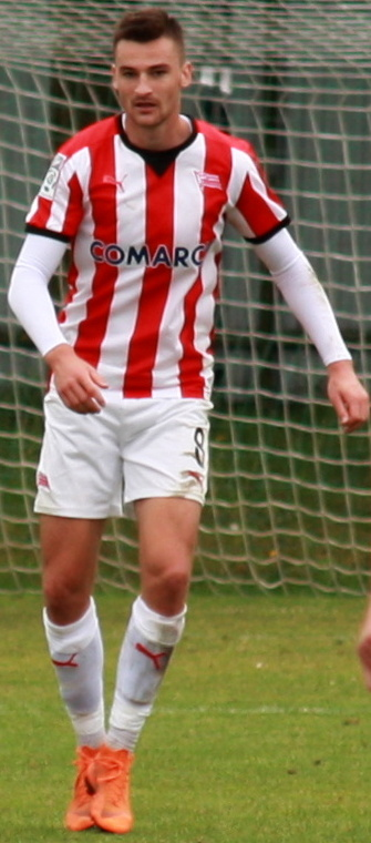 Milan Dimun, Slovak footballer in team Cracovia during friendly match against MFK Karviná in Dětmarovice, 23rd June 2018